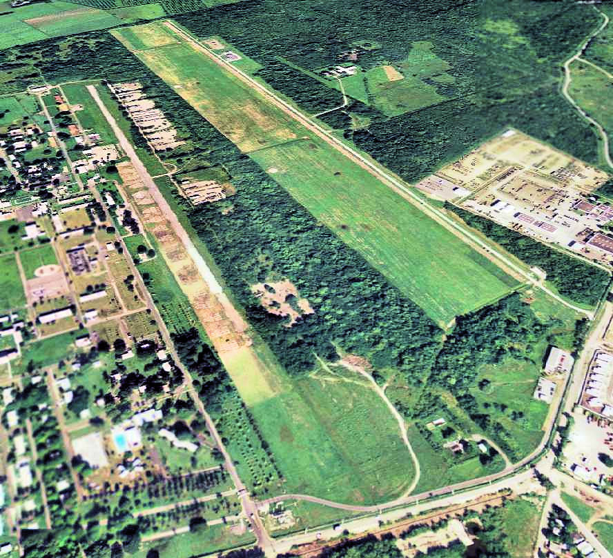 Losey Army Airfield - 2004